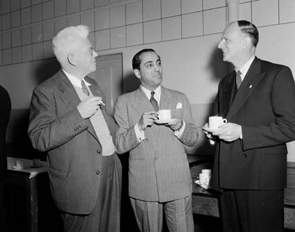 During a two-day symposium on "Atomic Power in Australia" at the New South Wales University of Technology, Sydney, which began on 31 August, 1954, more than 200 scientists and representatives of chemical and engineering industries heard top-ranking Australian scientists discuss the future of atomic energy in Australia - Three top ranking scientists, Professor Marcus Oliphant with visiting Indian nuclear scientist Professor Homi Jehangir Bhabha and Professor J.F.Baxter, meet over a cup of tea